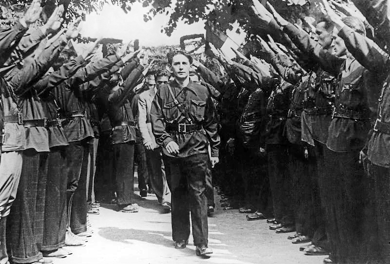 Horia Sima with Members of the Iron Guard (Legionaries) in Bukarest.